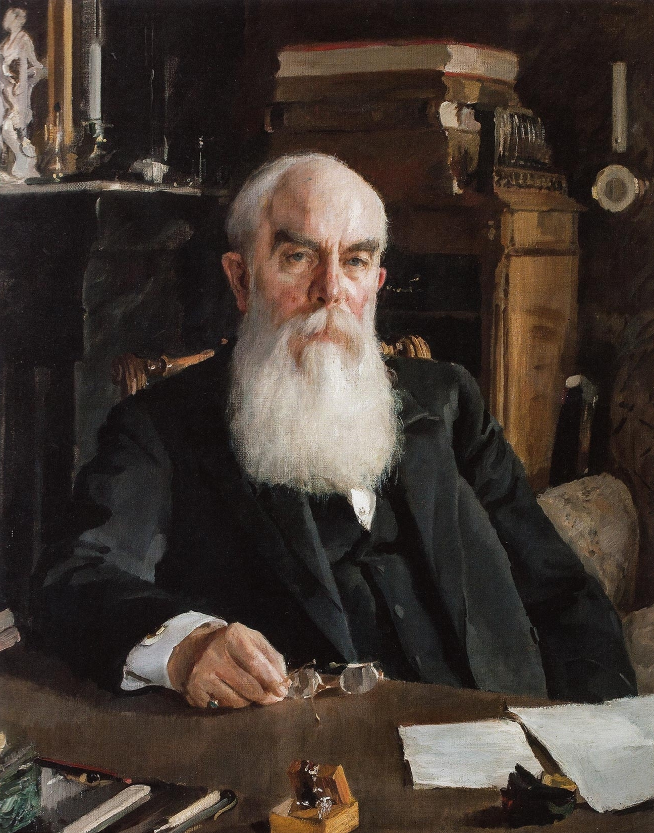 Portrait of A.I. Abrikosov